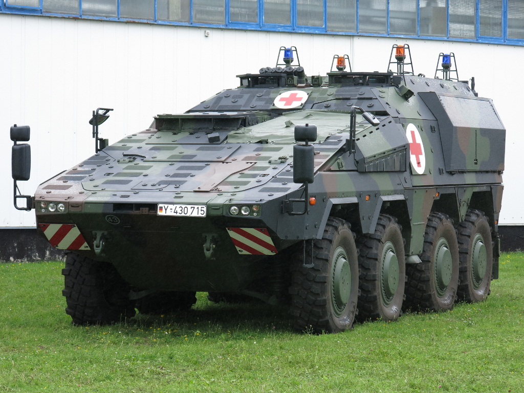 Boxer ambulance of German Army with woodland camouflage pattern, Open Day at German naval base Hohe Düne, 2016